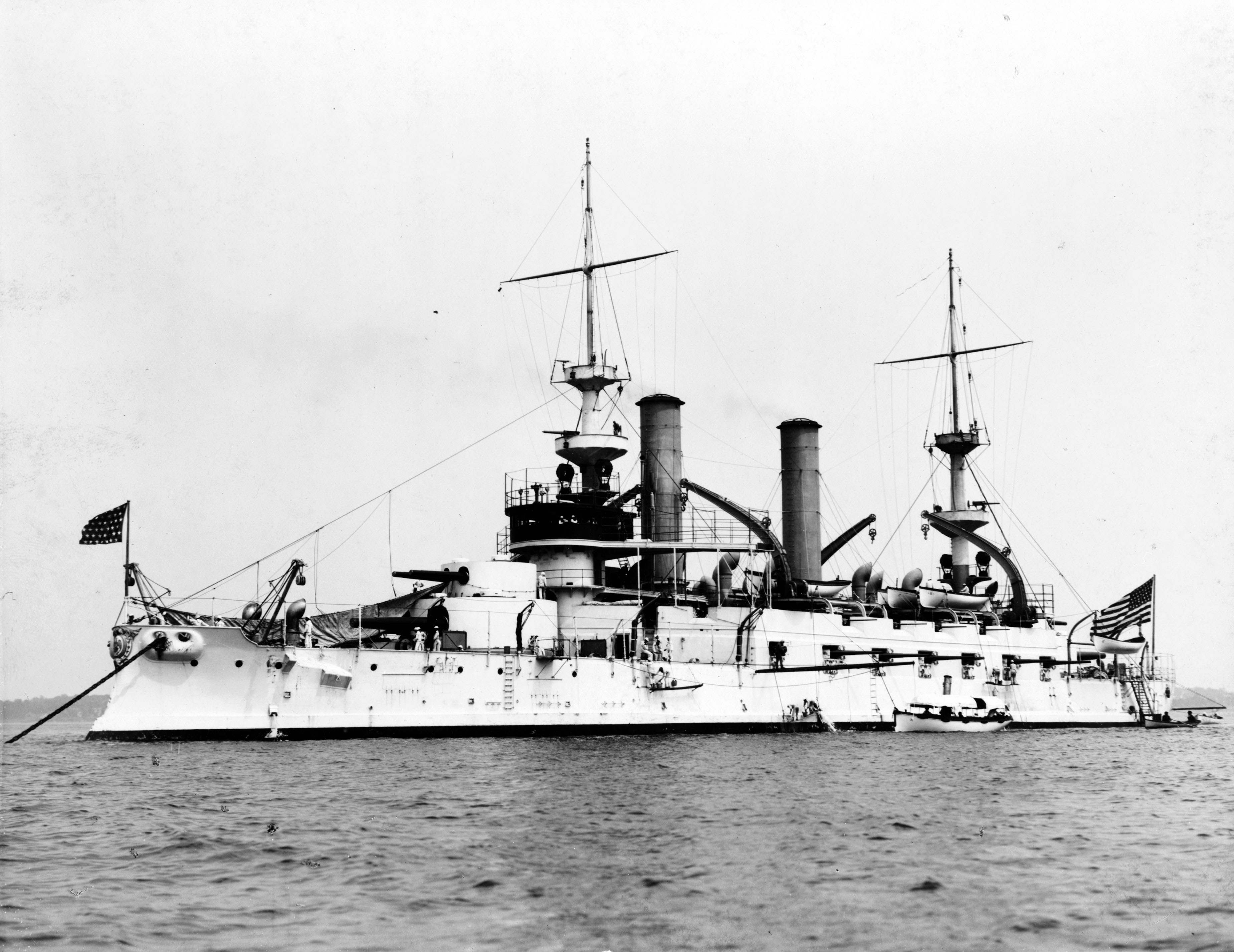 USS Kearsarge (BB-5) c. 1900